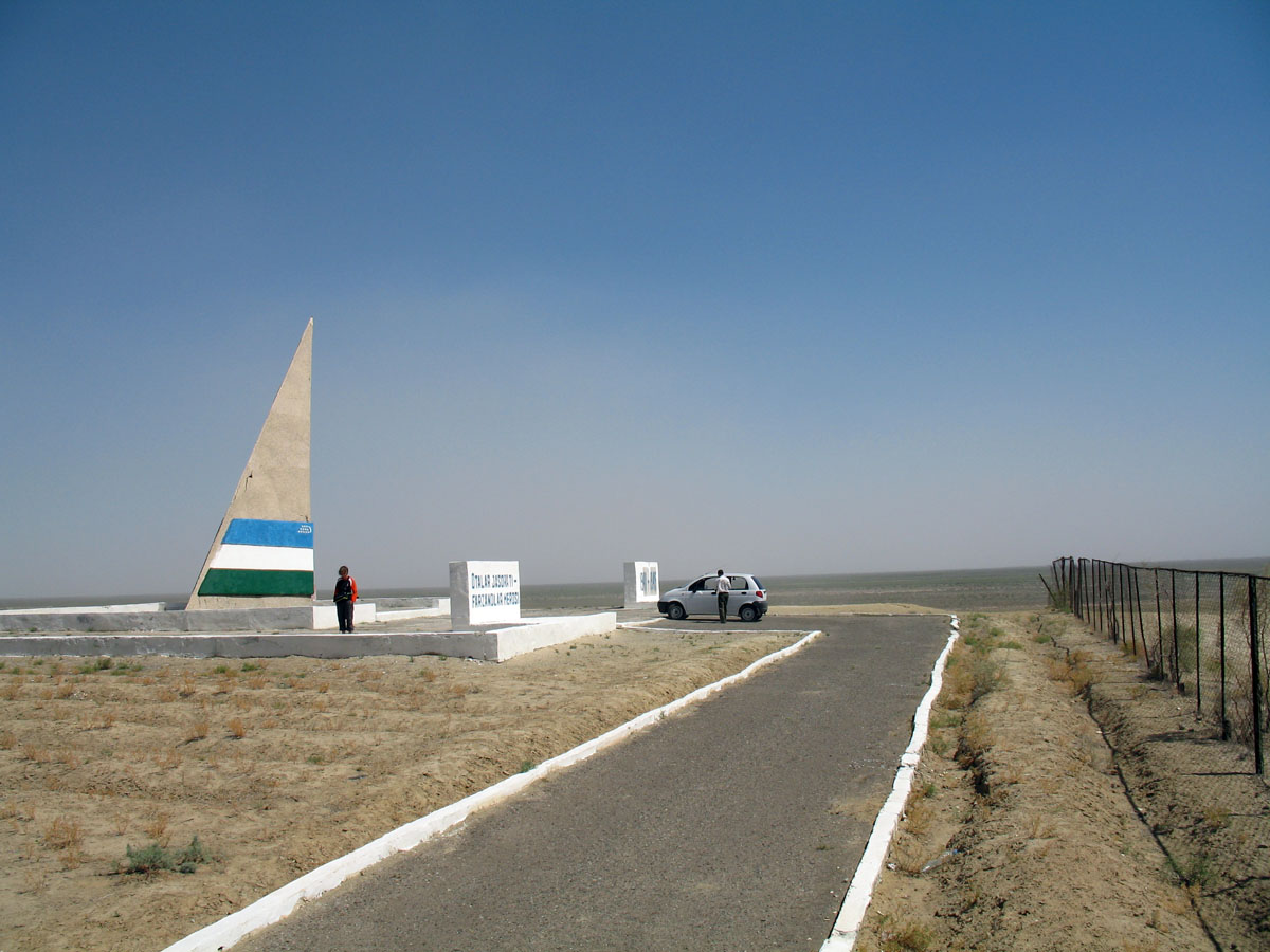 The Memorial above the former shore of the Aral Sea, now dried, in Mo‘ynoq, Uzbekistan.